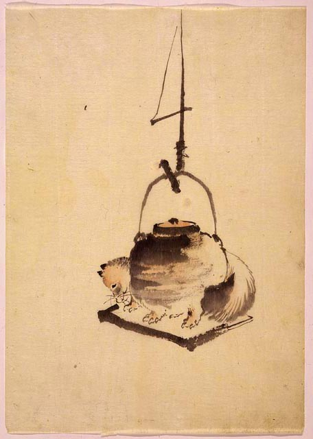 School of Katsushika Hokusai, c. 1840s. Ink on paper. 10 1/2 in. x 7 1/2 in. The drawing depicts a tanuki. (raccoon dog) by the tea kettle.